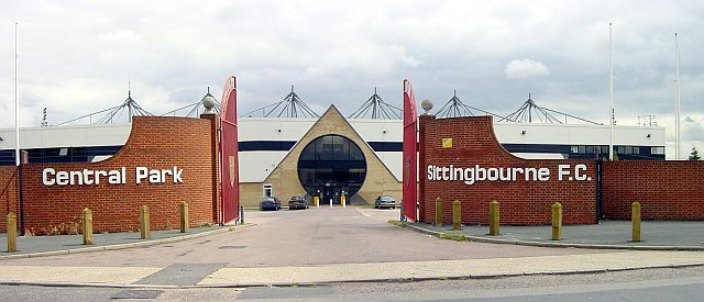 Central Park, Sittingbourne. Tucked away on the Eurolink Trading Estate; Central Park Stadium, opened in October 1995, hosts football, greyhound racing and boot fairs. The message on the iron gates reads "Bourne to win". It is the home stadium of Sittingbourne F.C..